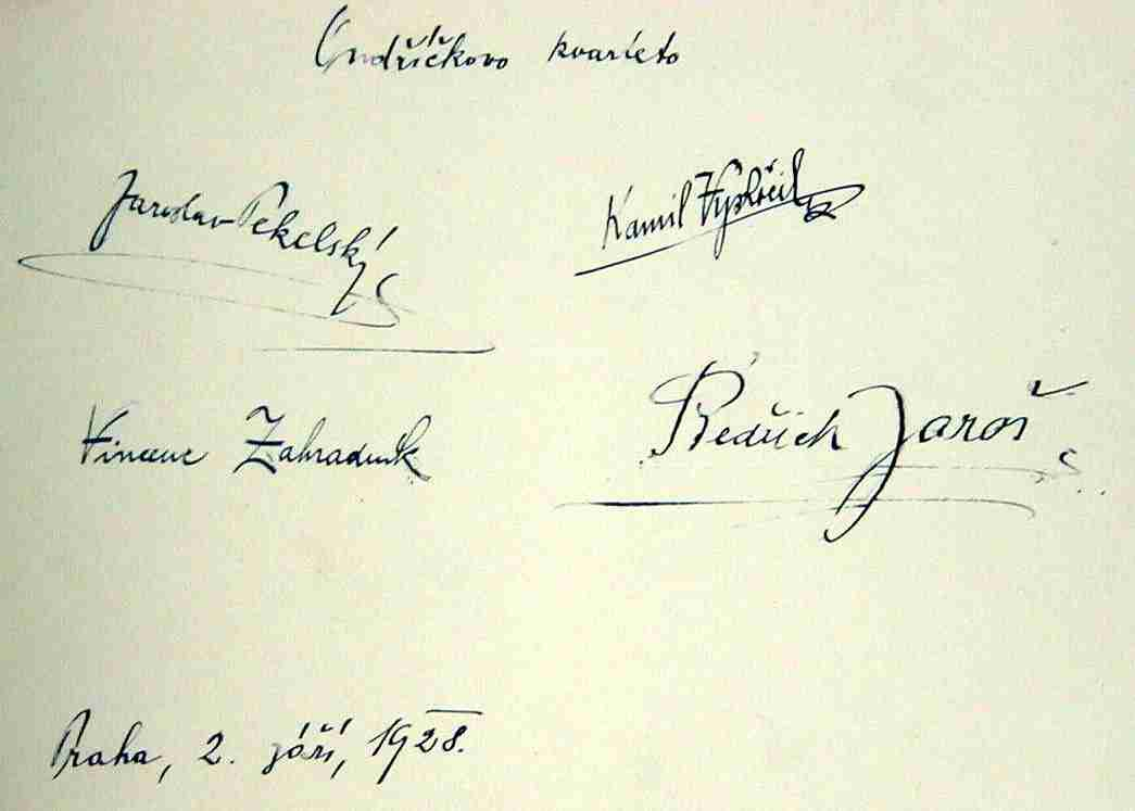 The autograph of participants of Ondracek Quartet